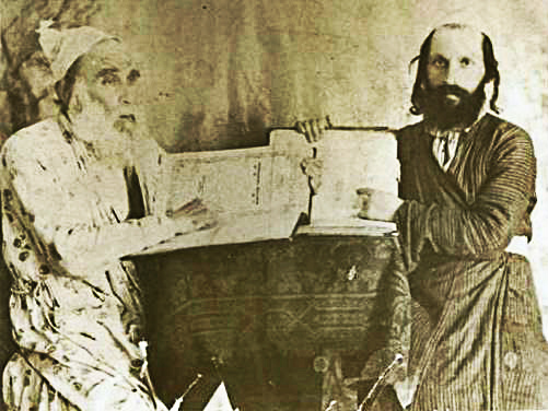 Rabbi Bernard Abramowitz (on right). This picture taken sometime inthe 1880s when Abramowitz was in his twenties.